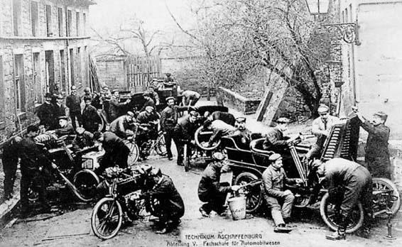 Training in the chauffeur school in Aschaffenburg